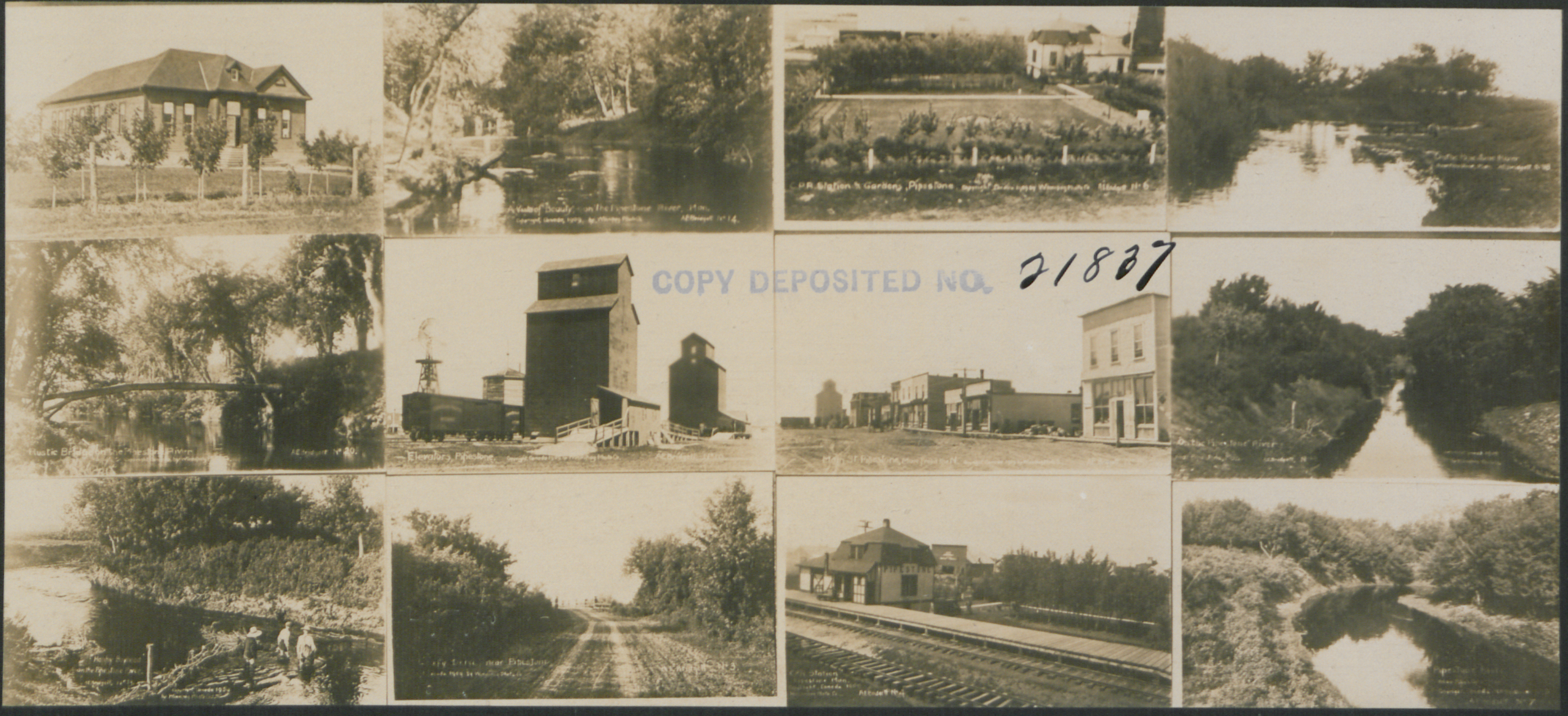 Views of Pipestone, Manitoba.